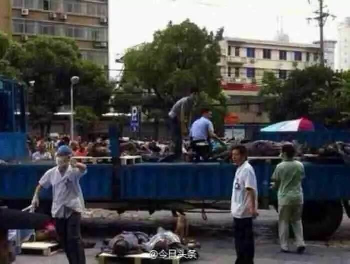 khoten nahea slavation